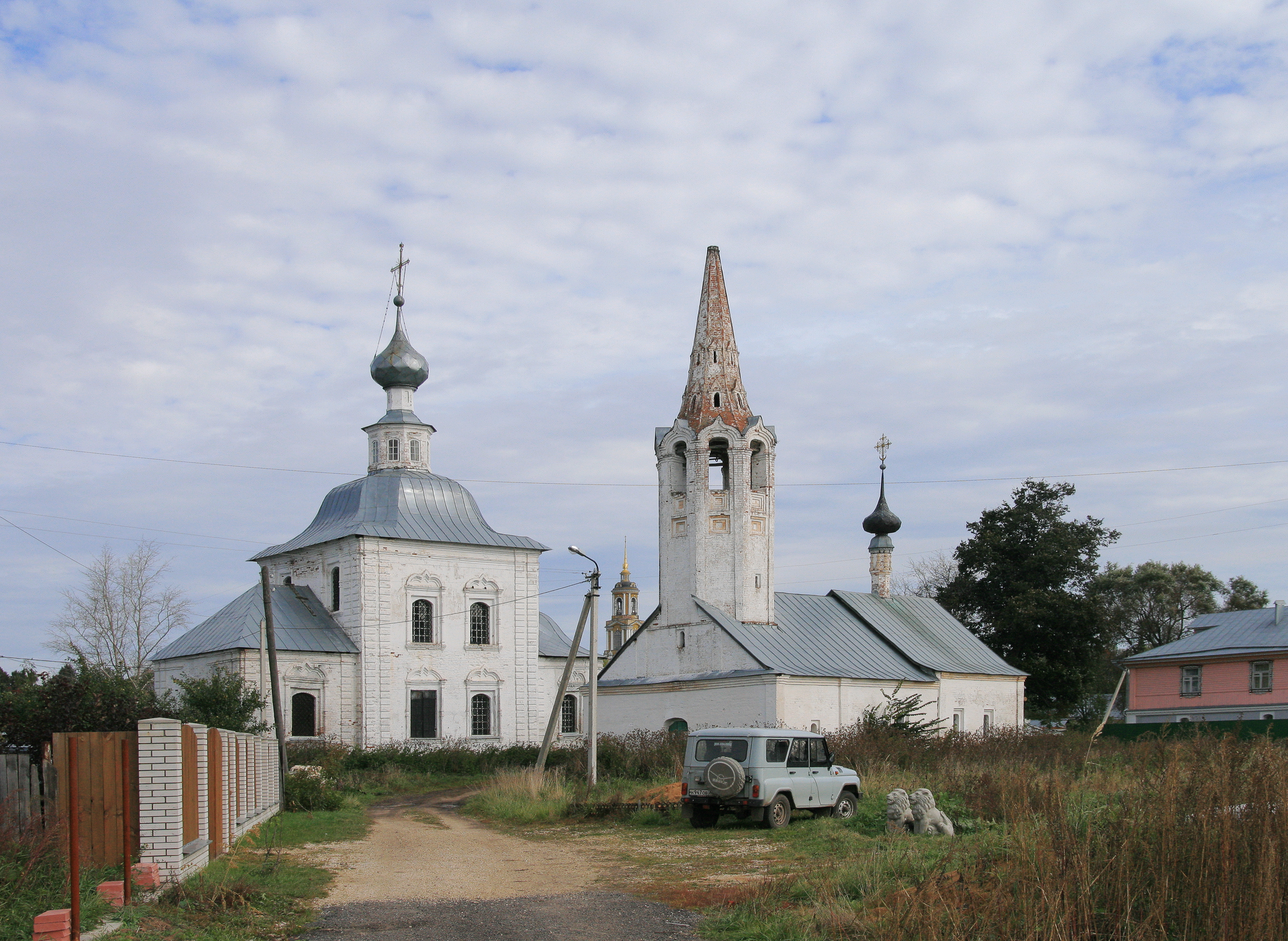 Churches of the Epiphany (1781) and the Nativity of John the Baptist (1703), Suzdal, Russia